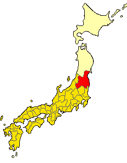 Location map of Mutsu Province of Japan in 701. From image:Japan_prov_map701.png.